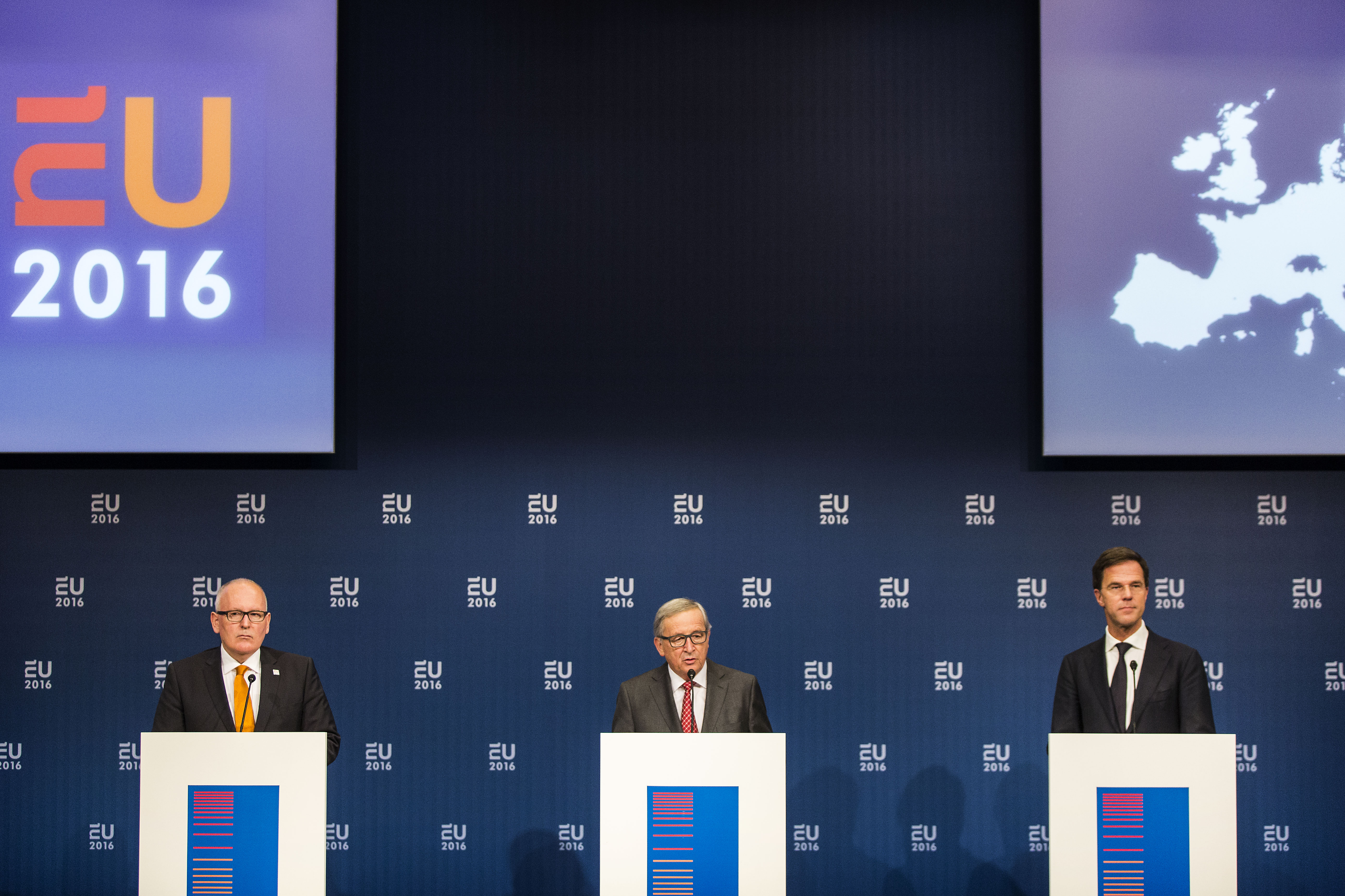 Amsterdam, 7 januari 2016 / Amsterdam, January 7th 2016. Persconferentie premier Mark Rutte, Voorzitter Europese Commissie Jean-Claude Juncker en Frans Timmermans. Press conference of Dutch prime minister Mark Rutte, president of the European Commission Jean-Claude Juncker and Frans Timmermans in Amsterdam. Foto: Rijksoverheid/Valerie Kuypers – Photograph: Dutch Government/Valerie Kuypers